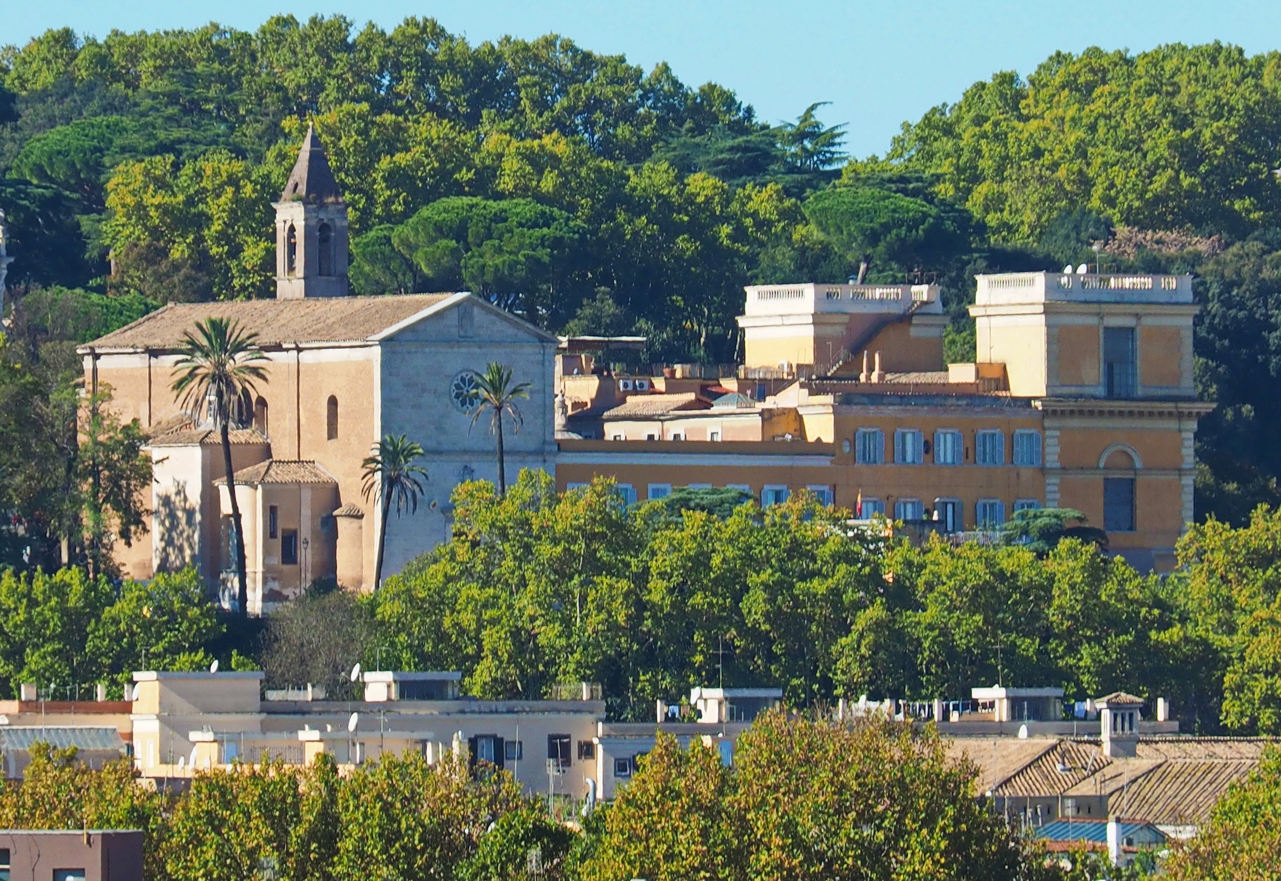 San Pietro in Montorio (Rome) seen from Aventin hill